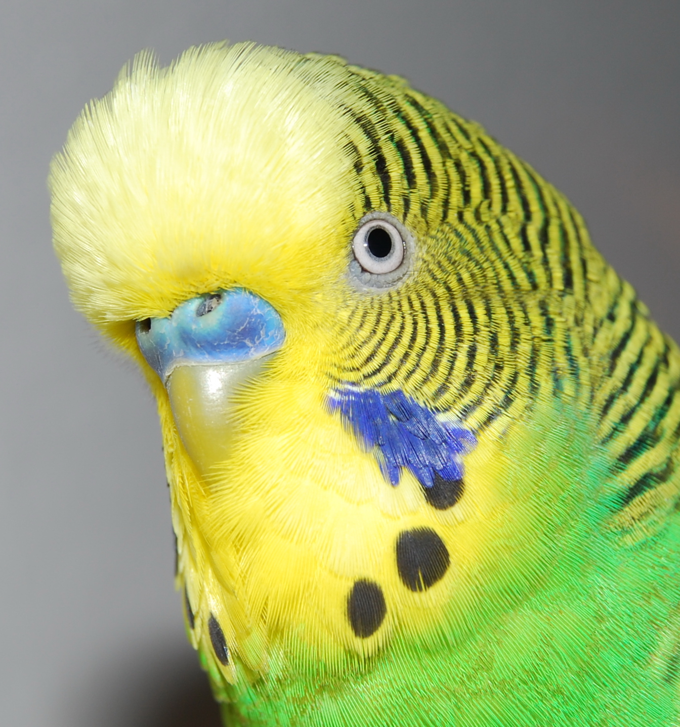 Detail shot of budgerigars head